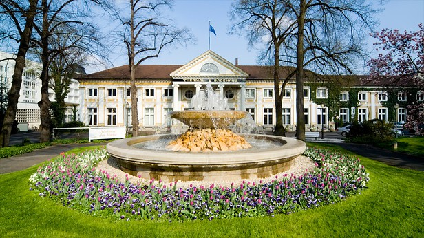 thermalbad bad neuenahr